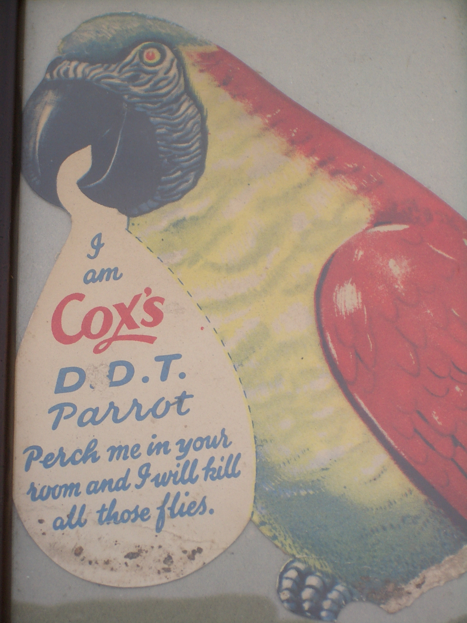 "Cox's D.D.T. Parrot: Perch me in your room and I will kill all those flies!". Apparently, a DDT-infused piece of cardboard that was used against insects indoors. Seen in a household in a small town in Victoria, Australia